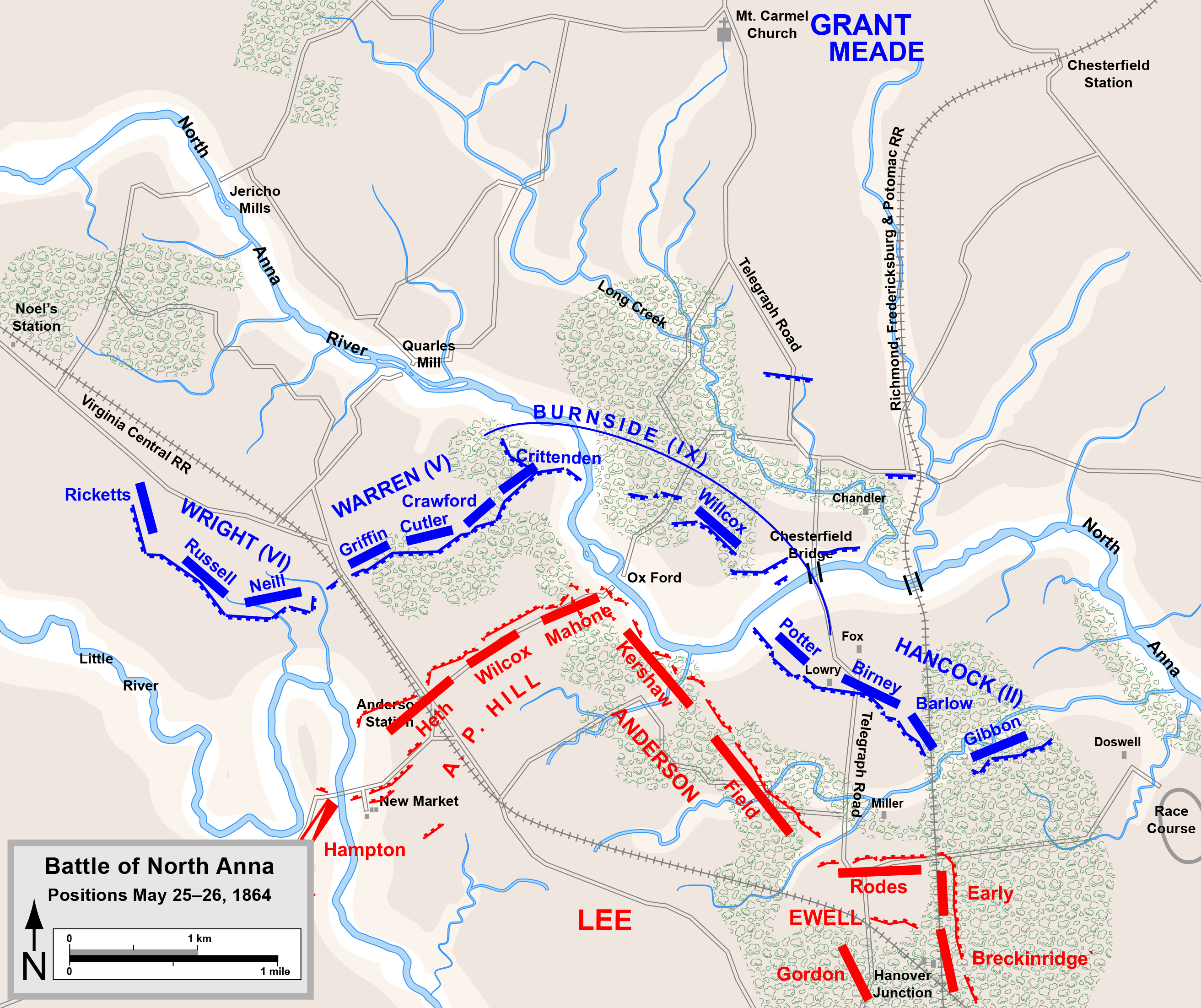 One of a series of four maps of the Battle of North Anna of the American Civil War, drawn in Adobe Illustrator CS5 by Hal Jespersen. Graphic source file is available at Attribution: Map by Hal Jespersen